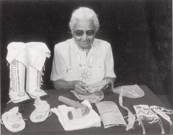 Alice Littleman, Oklahoma Master Artist and Kiowa beader